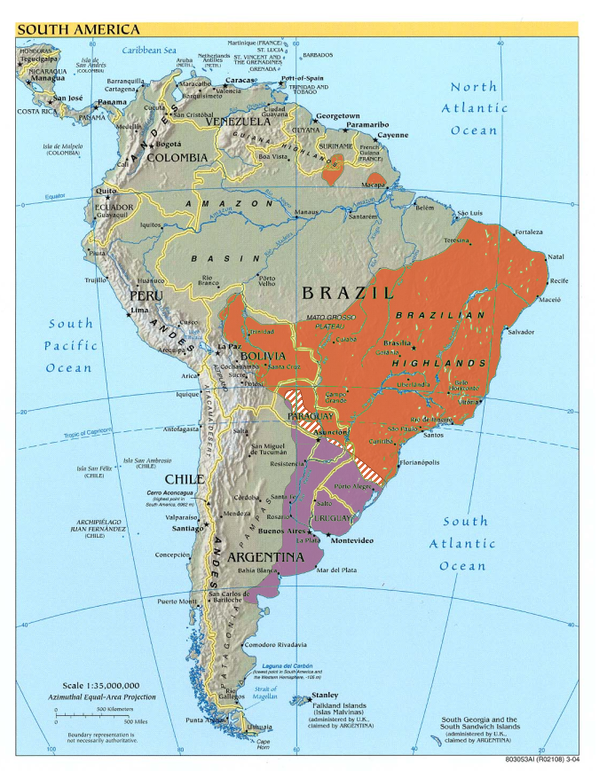 Distribution map of Colaptes campestris campestris (orange) and Colaptes campestris campestroides (mauve) - shaded: intergrading zone.